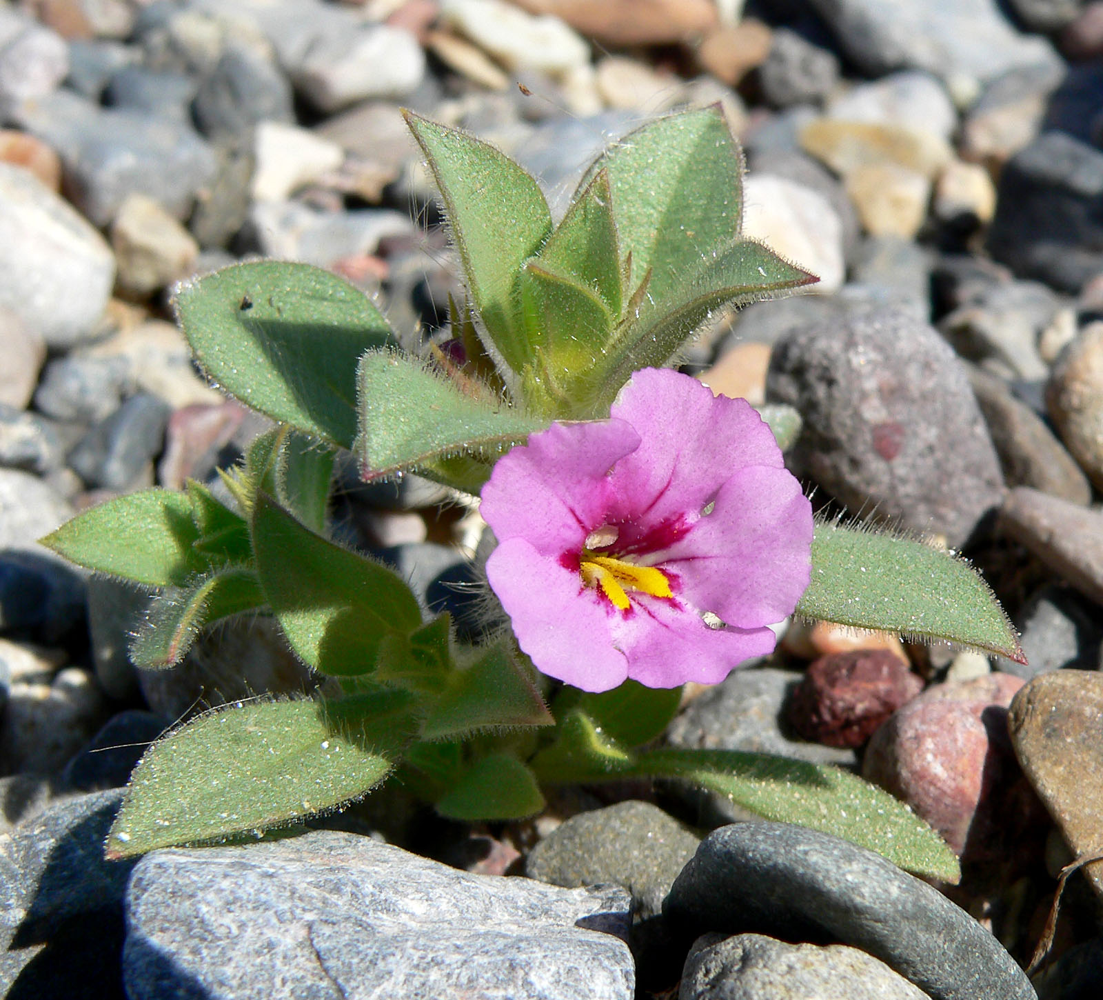 Mimulus bigelovii in Furnace Creek Wash, Death Valley, California